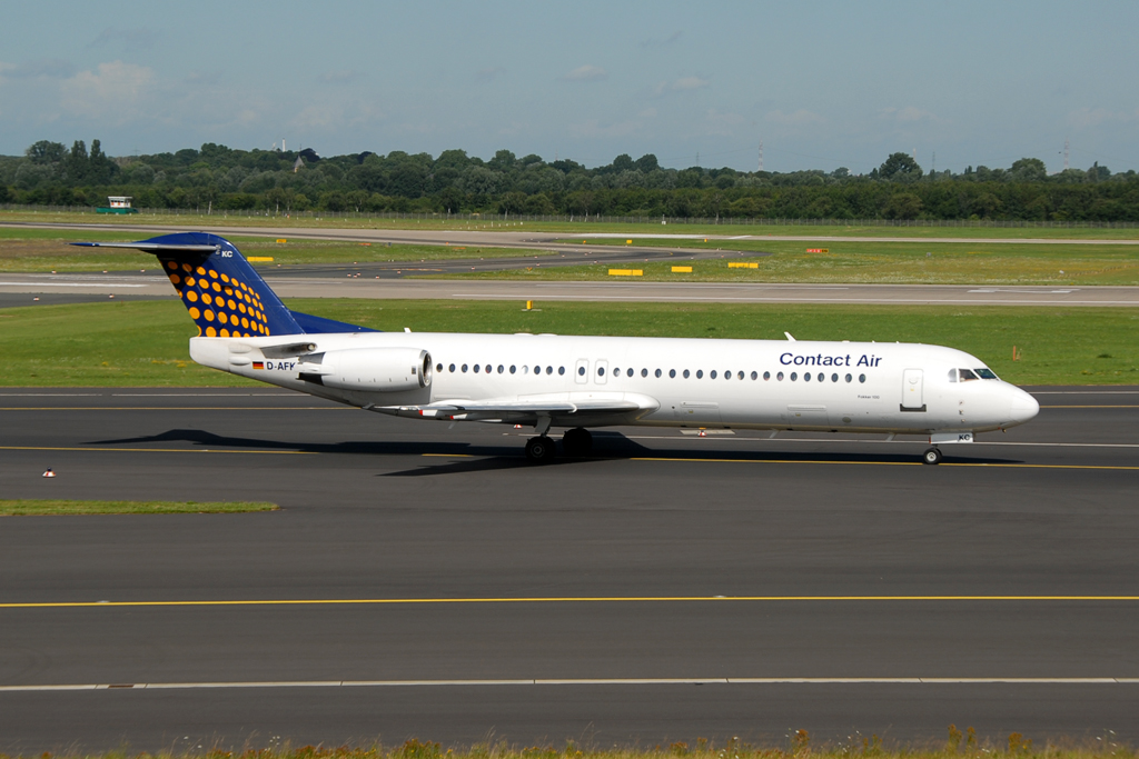 D-AFKC Fokker 100 msn 11496 operated by Contactair and seen taxiing for departure at Dusseldorf (DUS/EDDL).